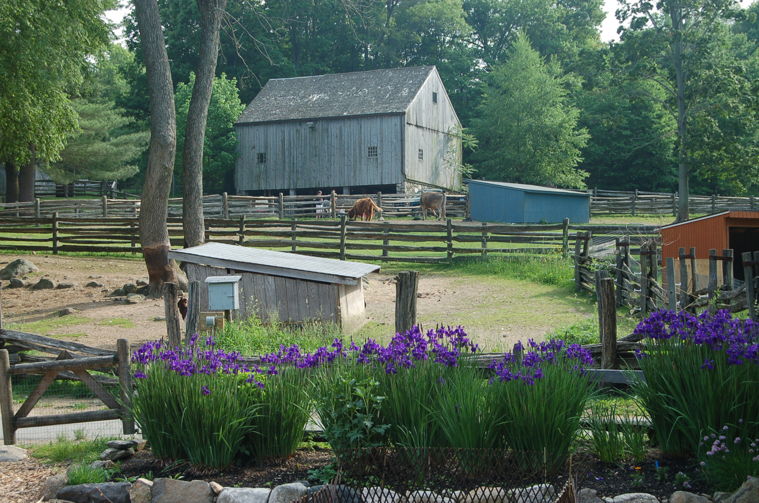 Photo from Hecksher Farm at Stamford Museum & Nature Center